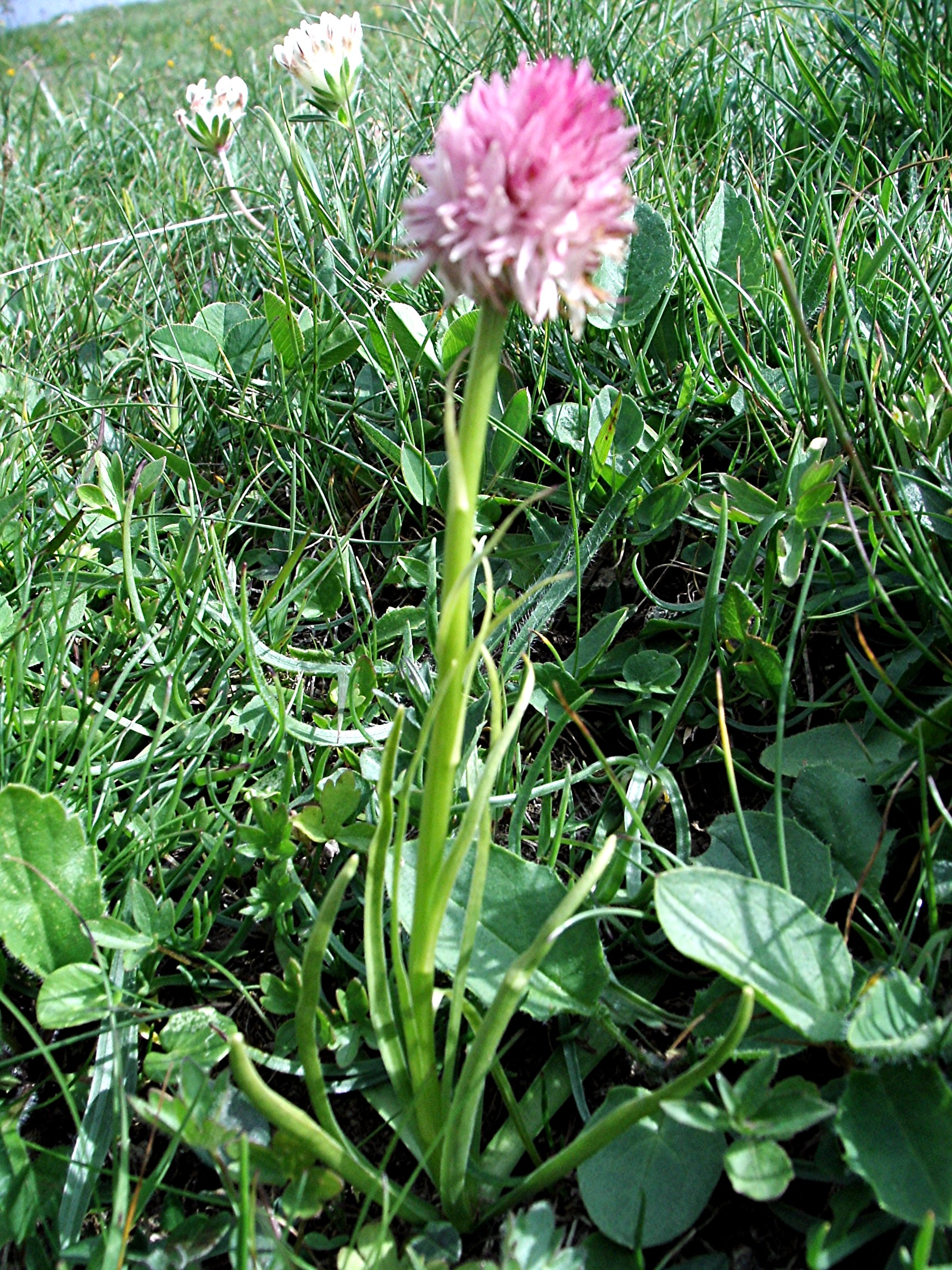 Gymnadenia corneliana, Devoluy, France